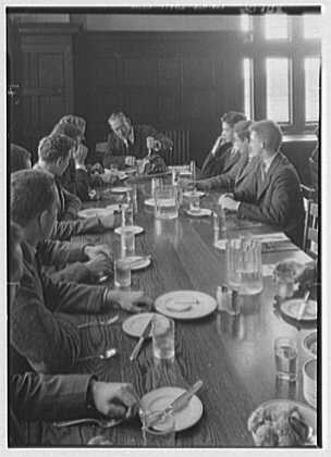 Title: St. George's School, Newport, Rhode Island. Abstract/medium: Gottscho-Schleisner Collection (Library of Congress) Physical description: 1 negative